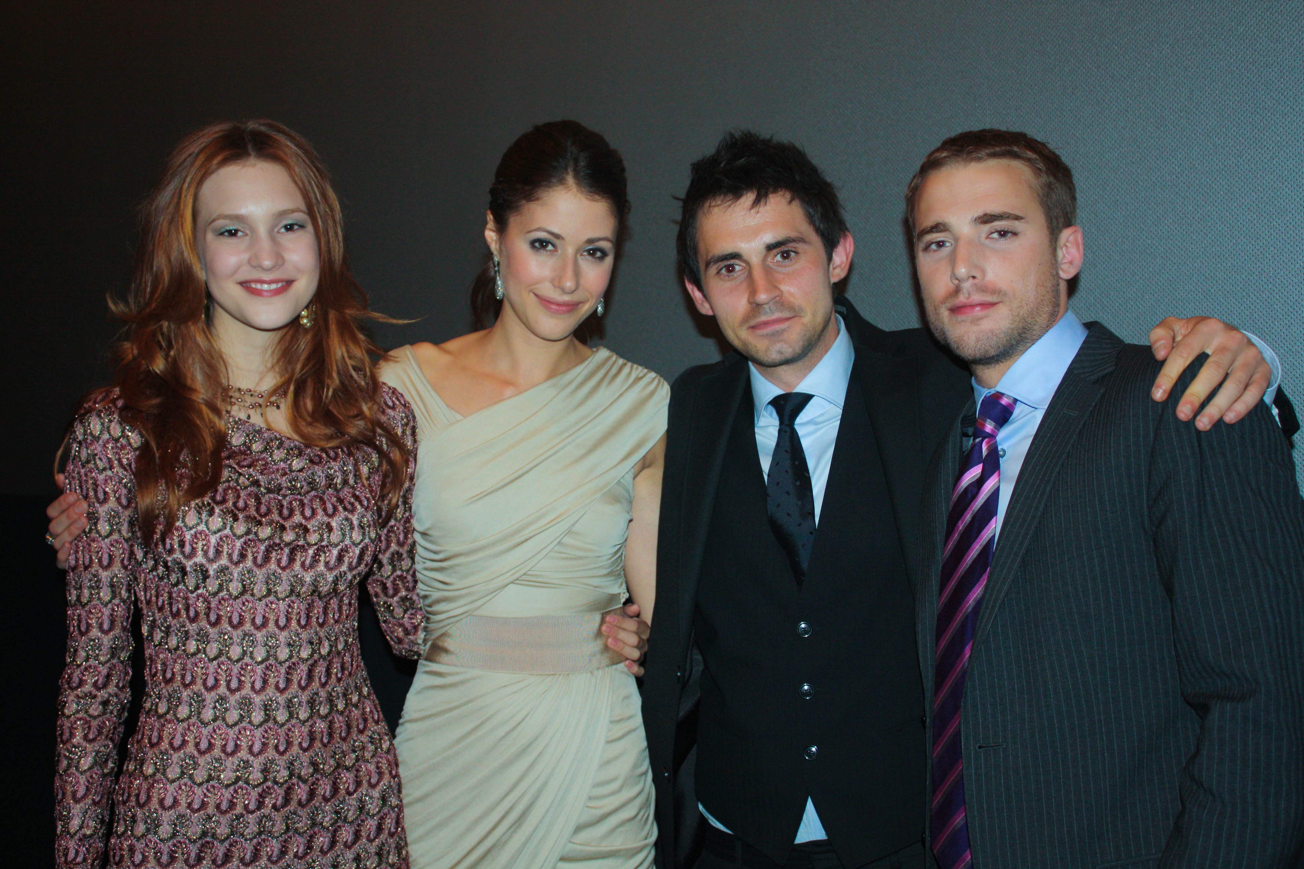 Canadian actors: Alexia Fast, Amanda Crew, Richard de Klerk, Dustin Milligan